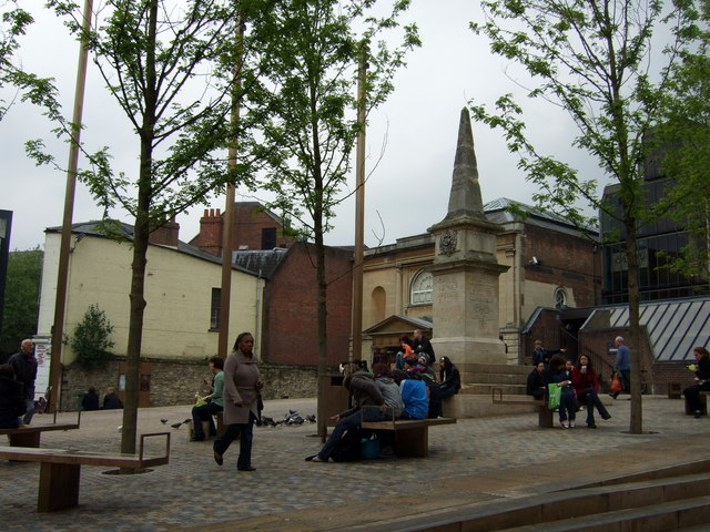 Bonn Square, Oxford, England, with New Road Baptist church behind the Tirah Monument